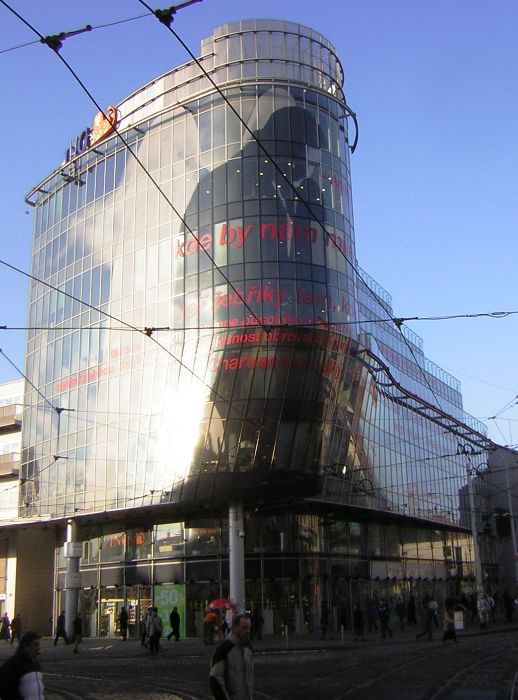 The Golden Angel, Praha Smichov, Jean Nouvel 2003